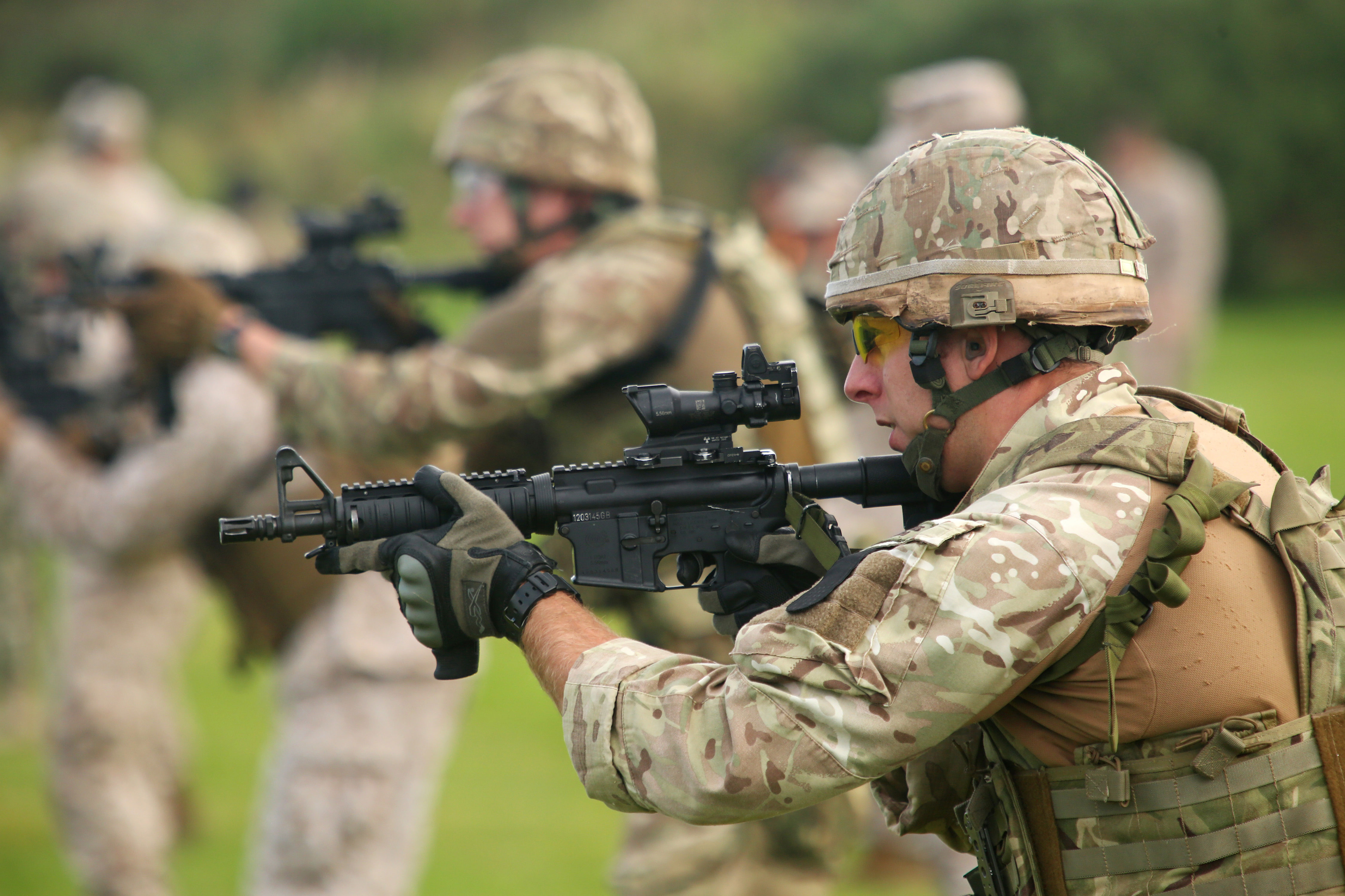 A British Royal Marine refines his reaction time and accuracy during a live-fire range near Inverness, Scotland during Exercise Tartan Eagle. The exercise, in its 20th iteration, is designed to bring service members from U.S. Marine Security Forces and Royal Marine Fleet Protection Group together to foster a long lasting partnership and to share ideas and tactical training procedures for the recovery and recapture of nuclear weapons. The U.S. and Royal Marines, along with their Navy counterparts, will travel to several locations throughout Scotland and conduct vertical assault climbing, mountaineering, live-fire-ranges, close quarters battle simulation scenarios and enjoy some liberty in the area all in an effort to strengthen the bond and working relationship with our UK counterparts.